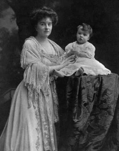 Lady Beatrix Stanley and Barbara Stanley, her daughter, on the cover of Country Life in 1907.